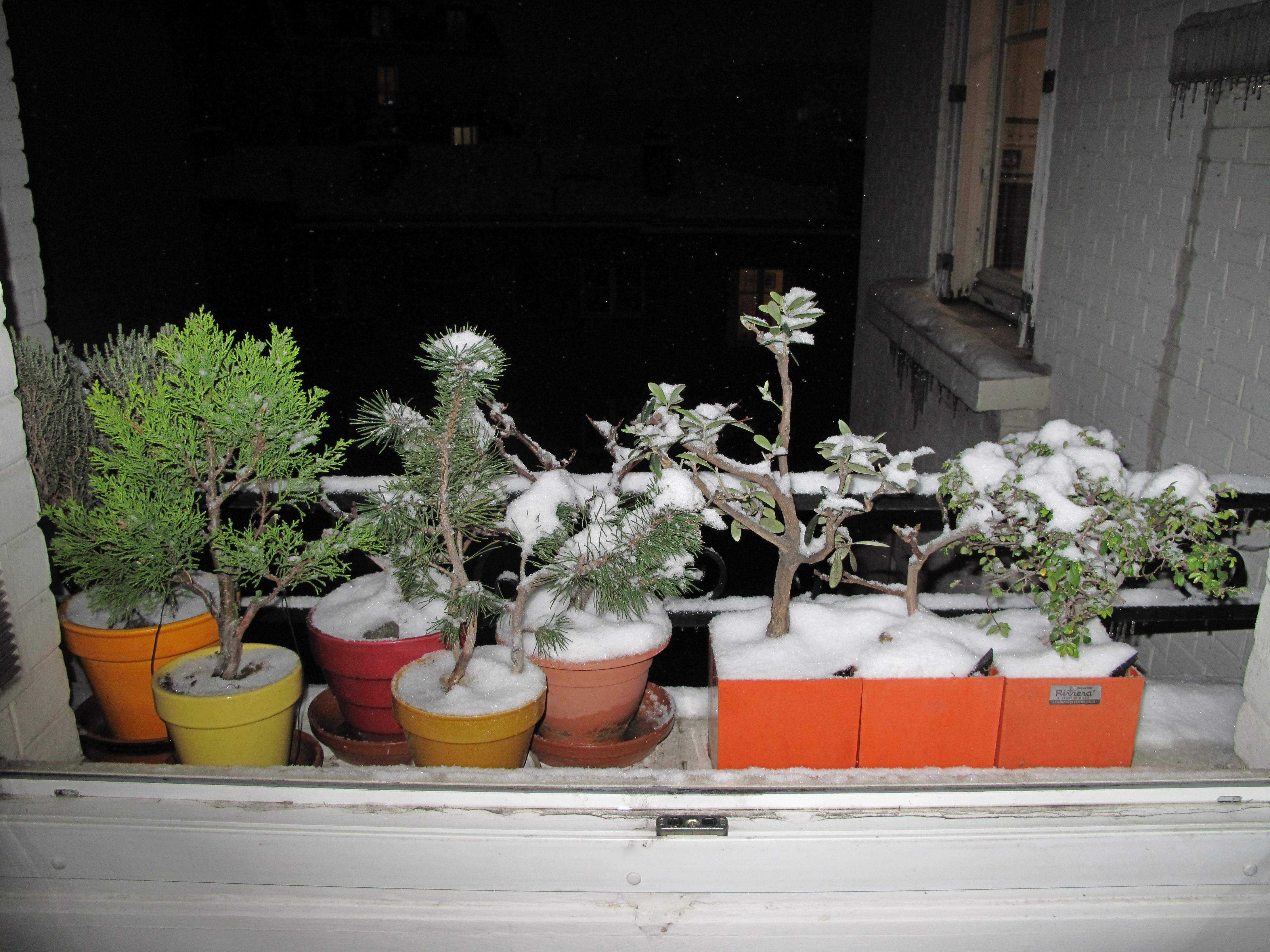 Bonsais under snow on a balcony in march 2013.